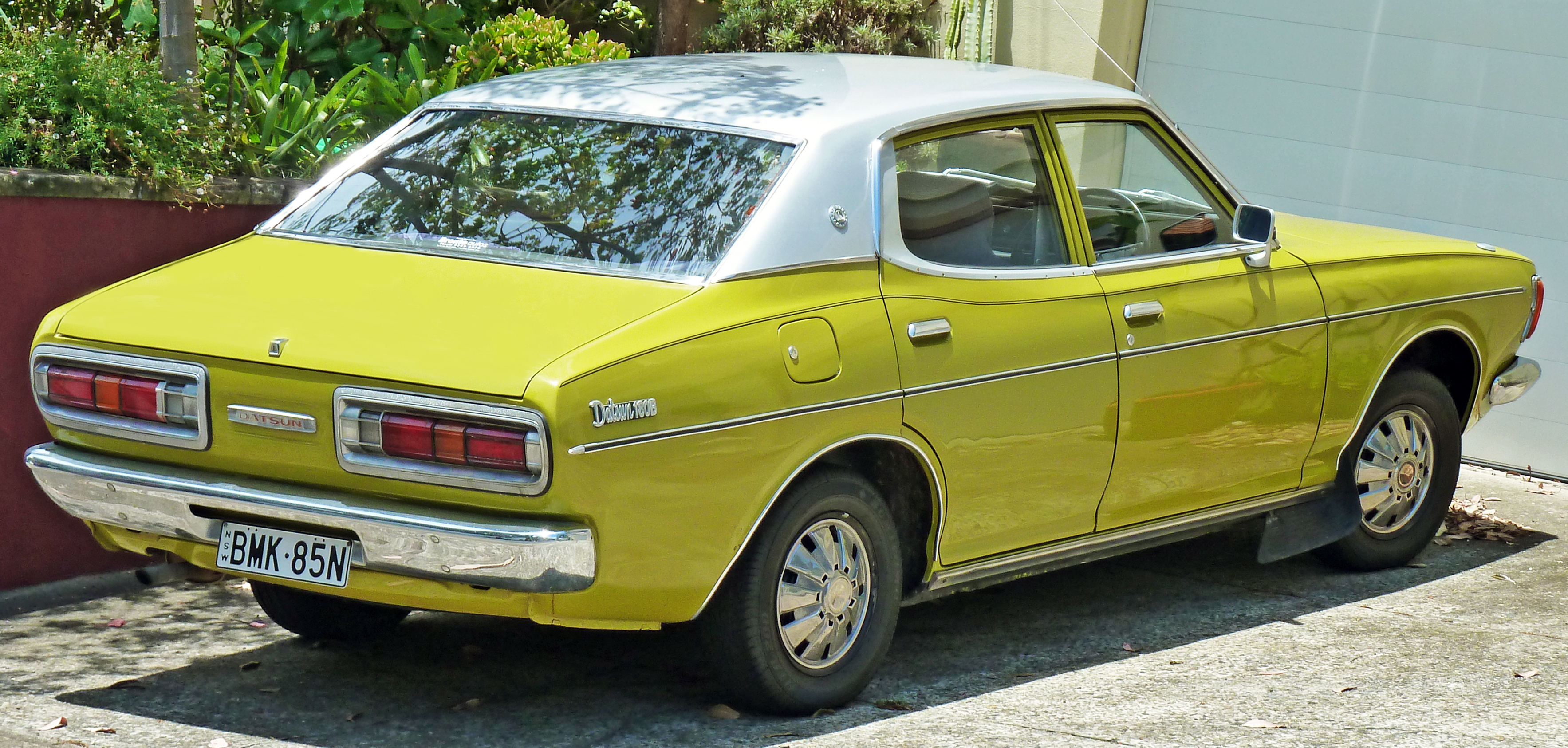 1976 Datsun 180B (P610) GL sedan. Photographed in Vaucluse, New South Wales, Australia.